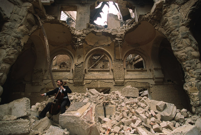 This image is one of my favourites. It was taken during the war in 1992 in Sarajevo in the partially destroyed National Library. The cello player is local musician Vedran Smailović, who often came to play for free at different funerals during the siege despite the fact that funerals were often targetted by Serb forces. (Mikhail Evstafiev)